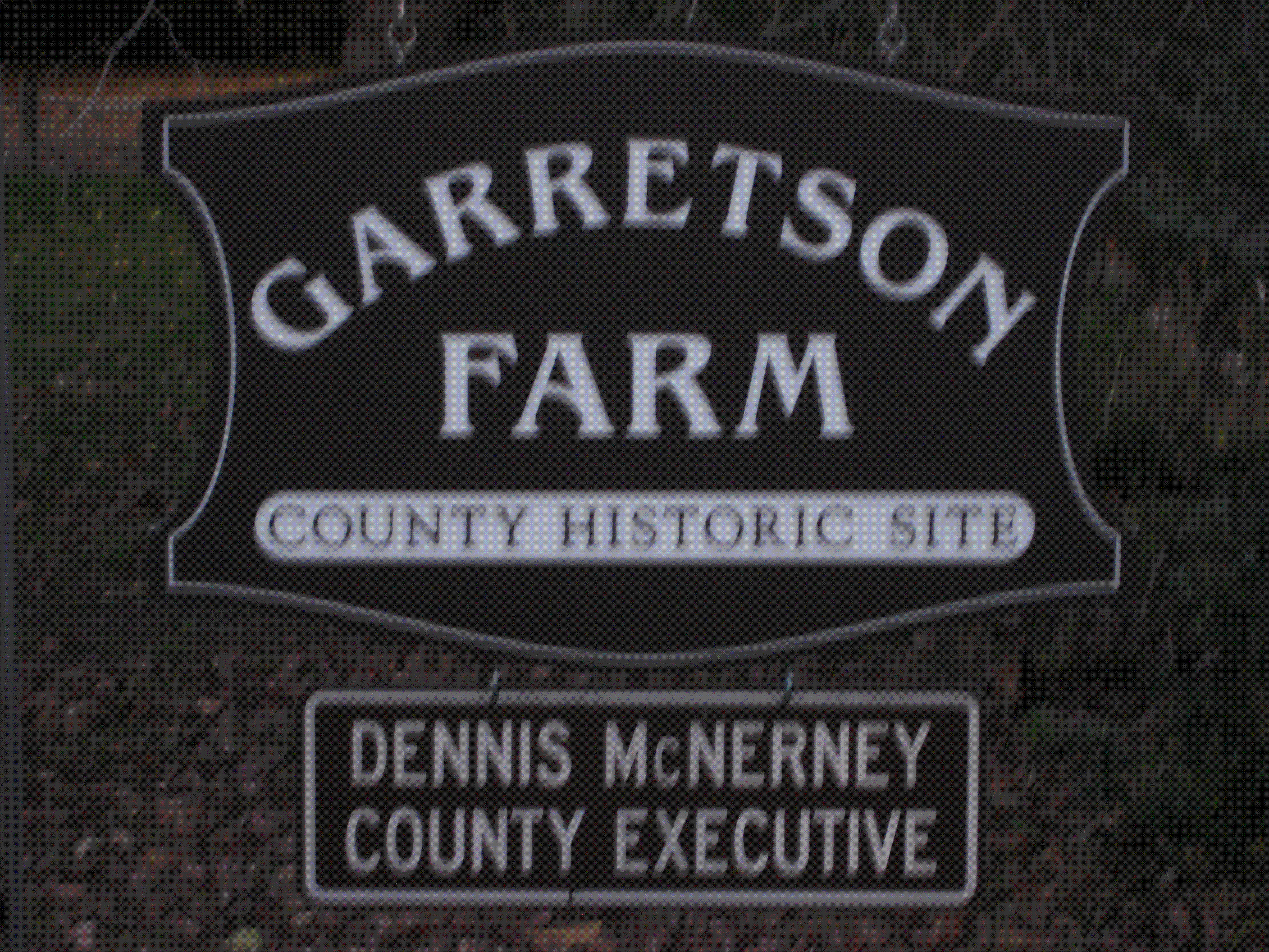 Garretson Forge and Farm — entrance sign. Open air agriculture and history museum in Bergen County, New Jersey.